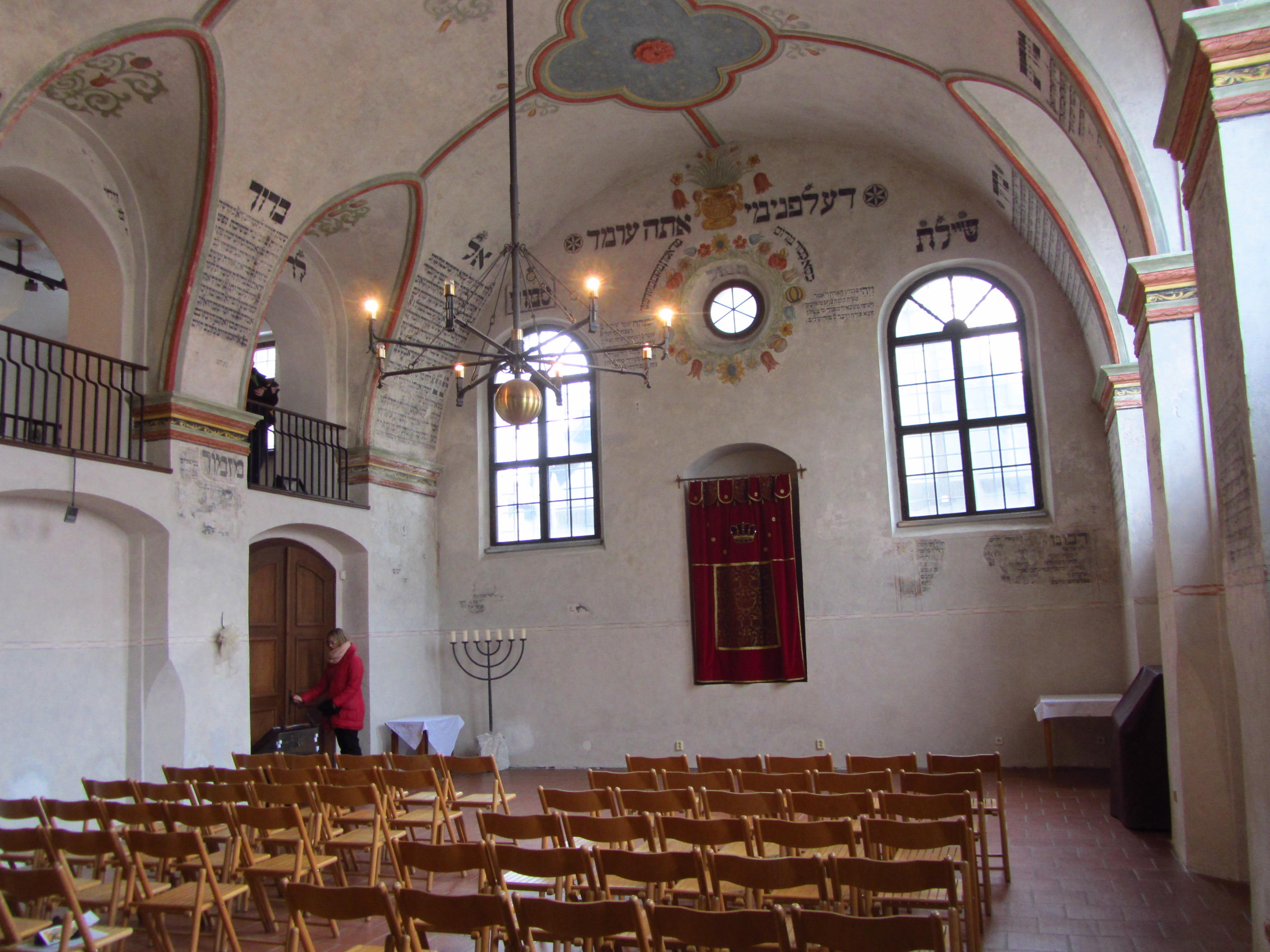 Interior of Jewish Synagogue, Třebíč, Czech Republic